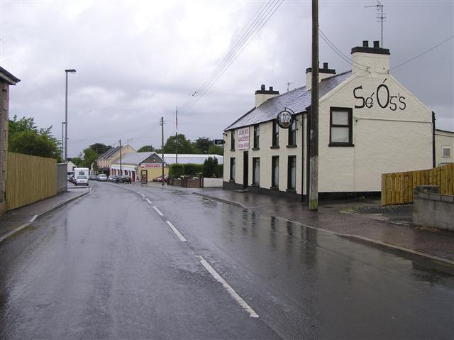 Rasharkin Main Street, near to Rasharkin, Ireland. Looking north-west on a wet day